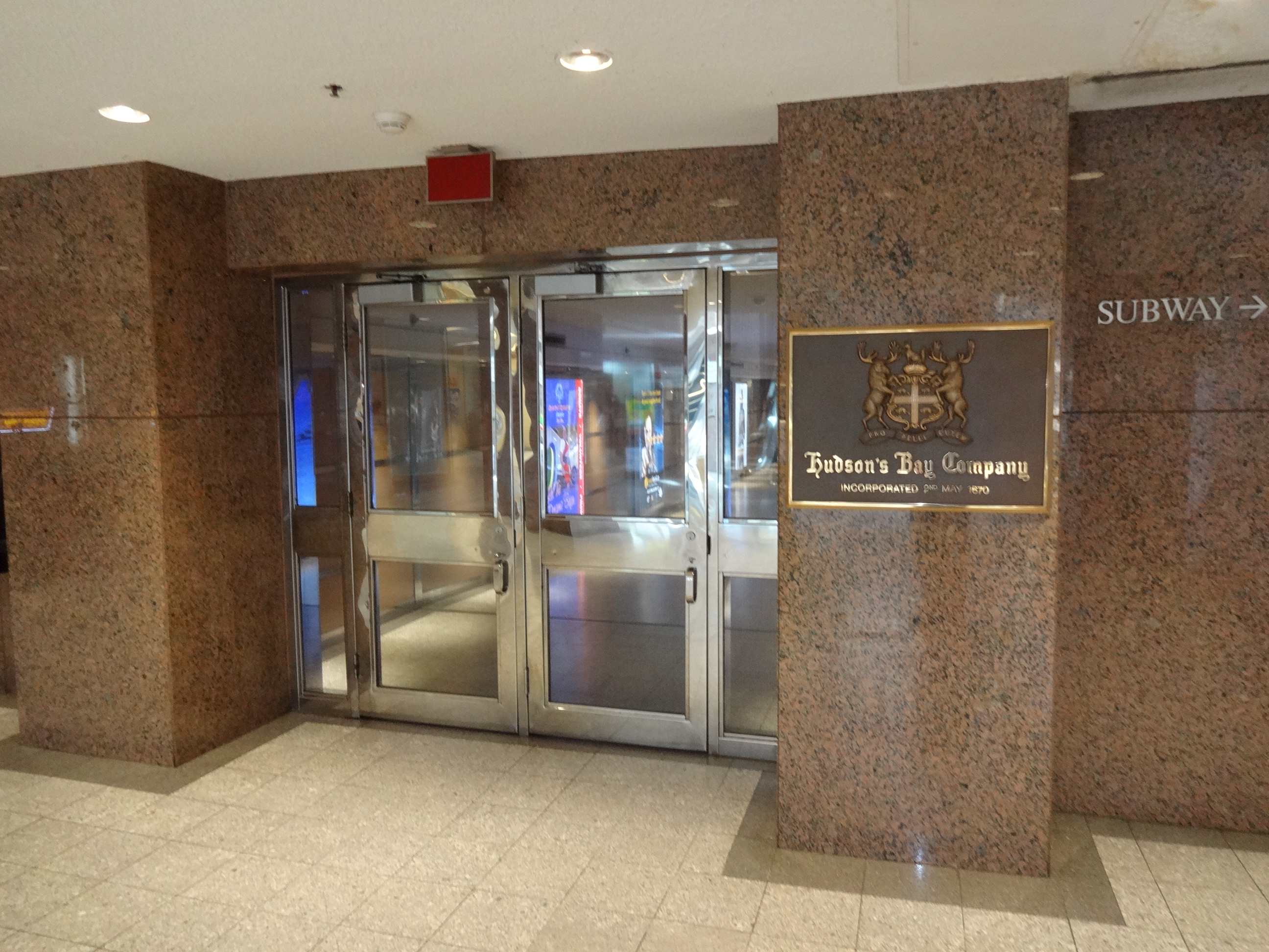 The Bay entrance, 176 Yonge Street, Toronto.